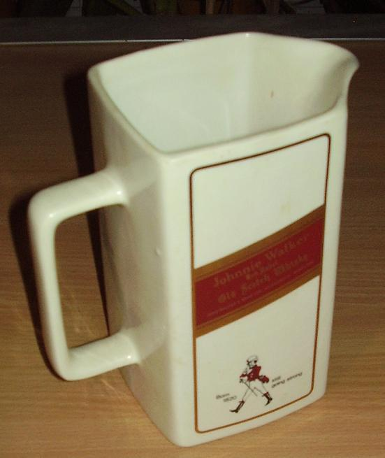 Johnnie Walker whisky pitcher